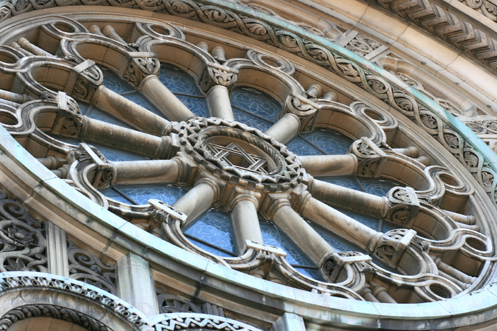 Temple Emanu-El, 1 East 65th Street, New York City